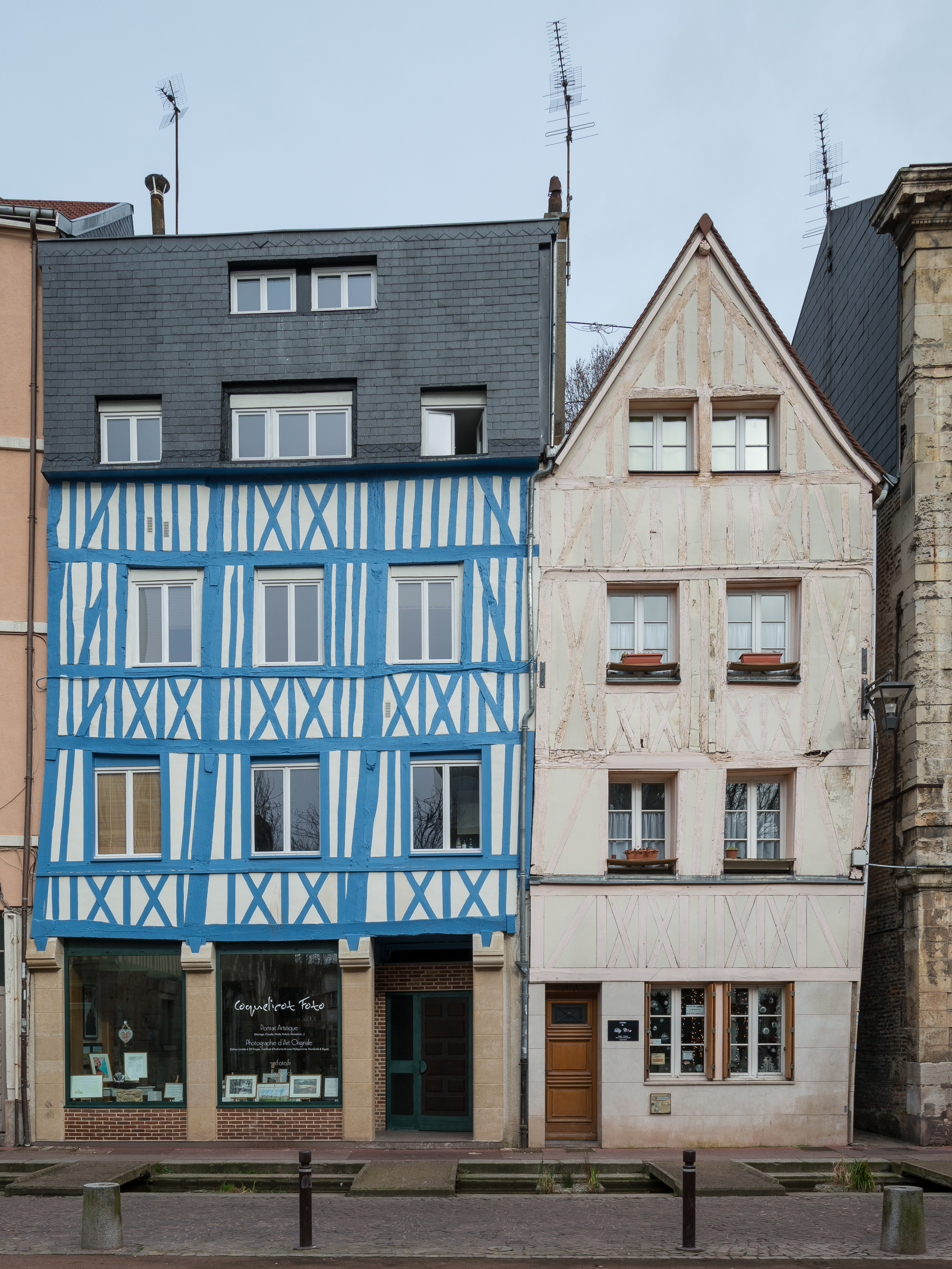 Two old and tilted houses in Rue Eau de Robec in Rouen